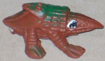 This plastic toy was the inspiration for the Bulette, a fictional monster created by Gary Gygax for the game of Dungeons and Dragons.